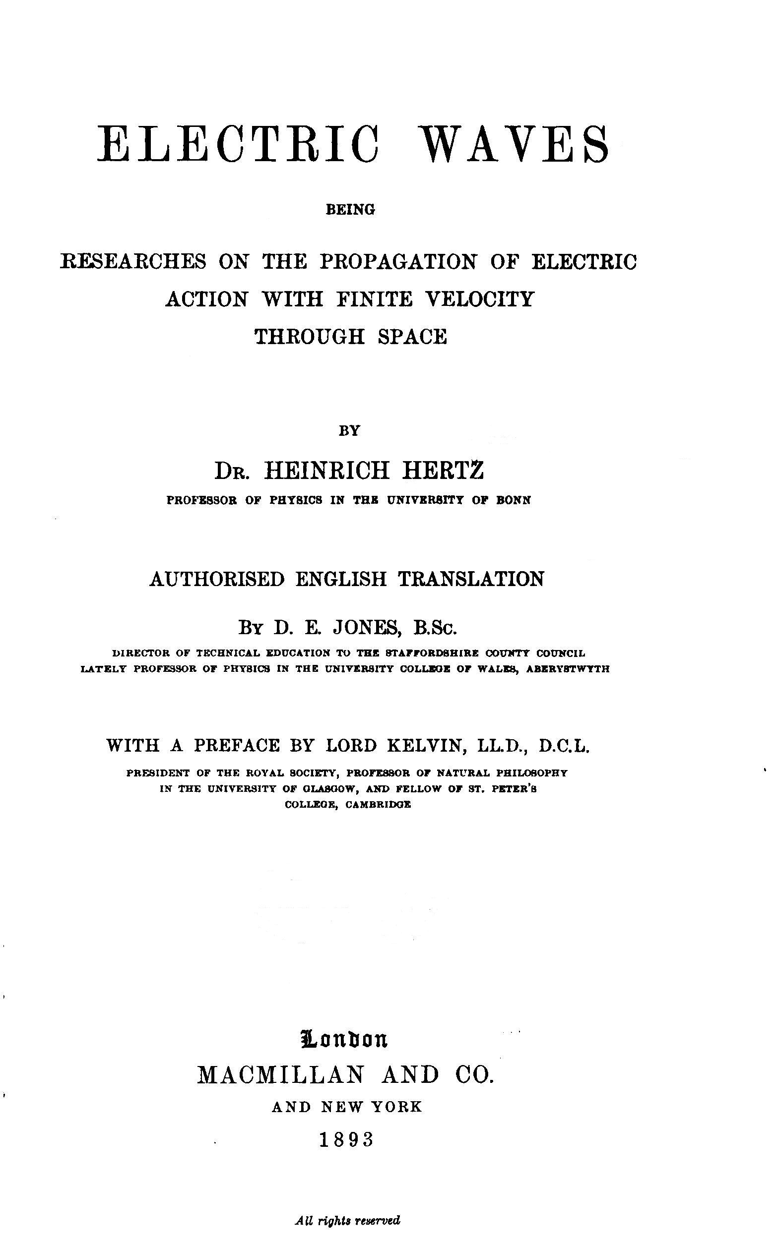 Cover page of the English translation of "Untersuchungen über die ausbreitung der elektrischen kraft". Dirt and library stamp removed with GIMP clone tool, sharpened also.